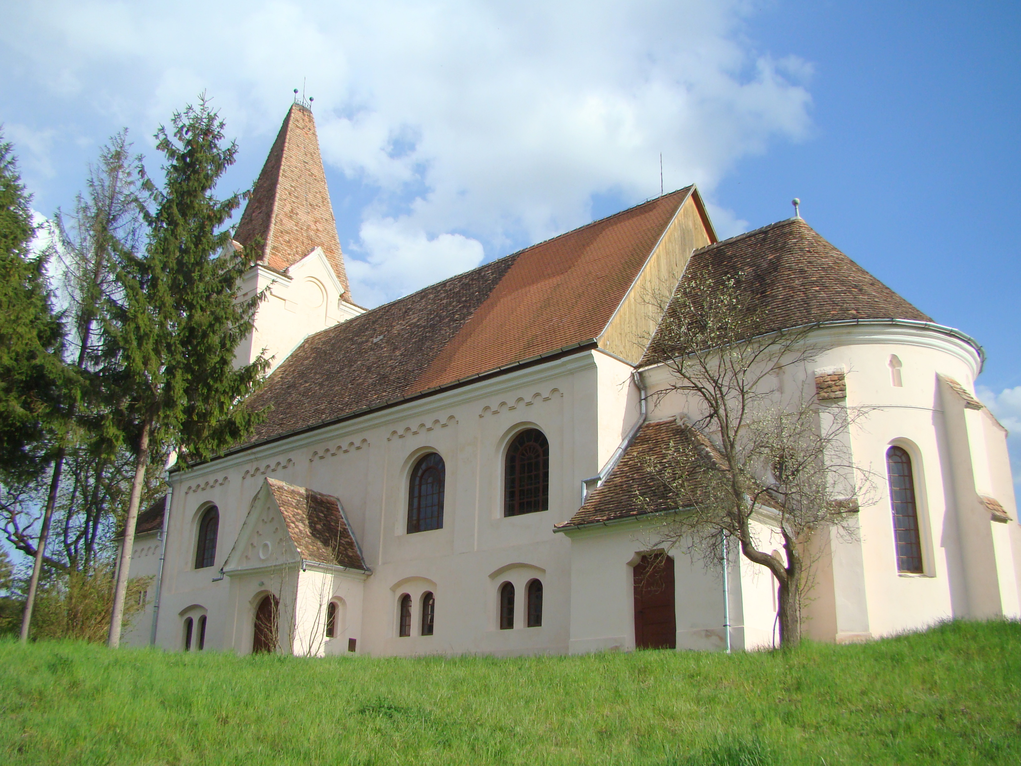 Lutheran church in Criș, Mureș county, Romania